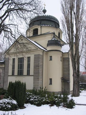 main building of old St. Matthew churchyard in Berlin-Schöneberg